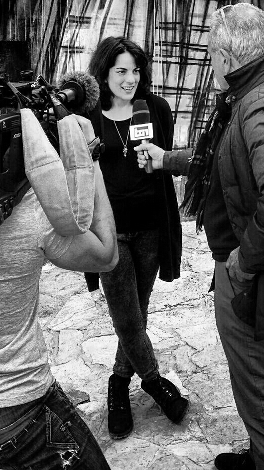 Alice Pasquini 2016